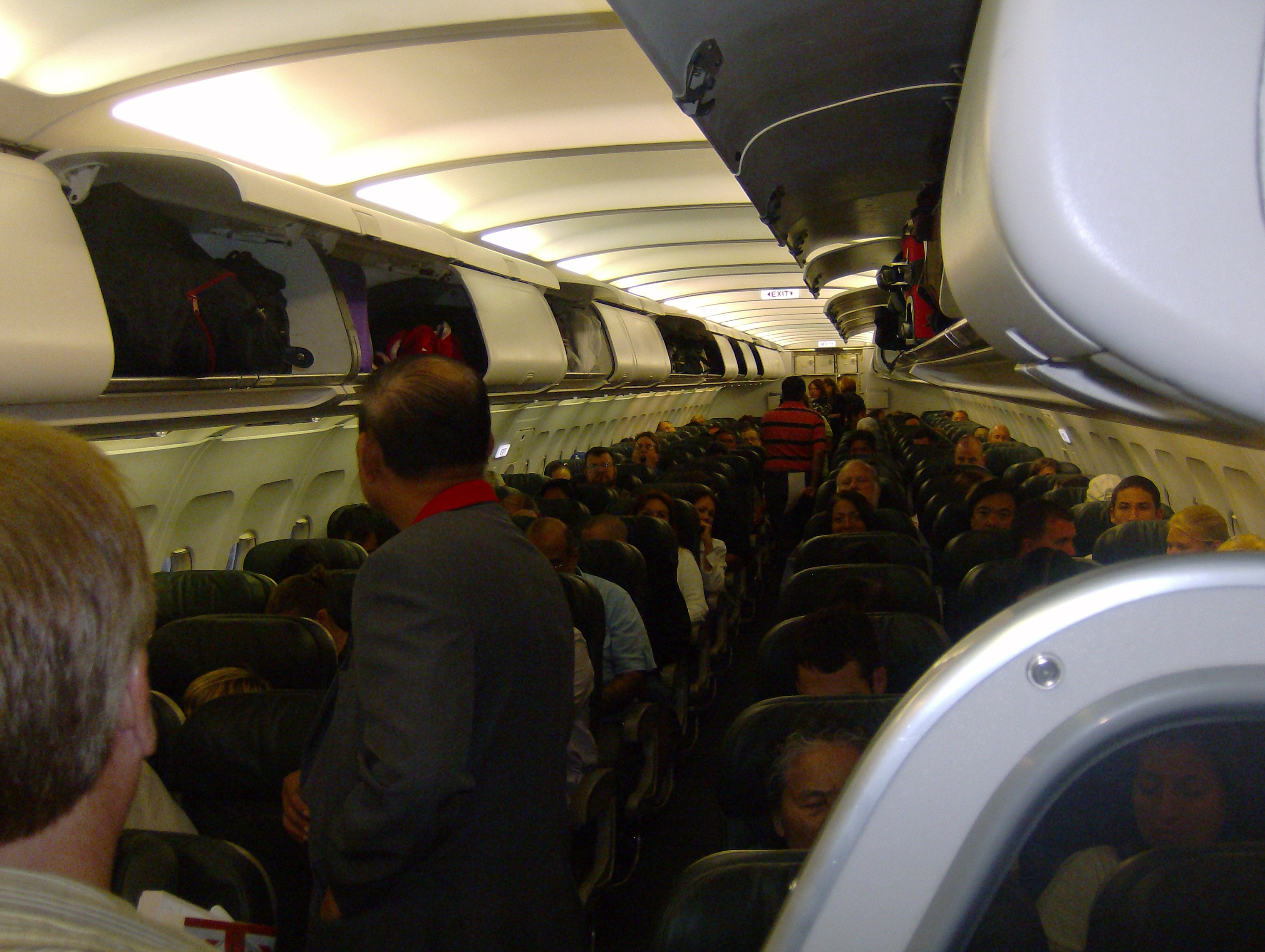 Interior Cabin of Frontier Airbus A319